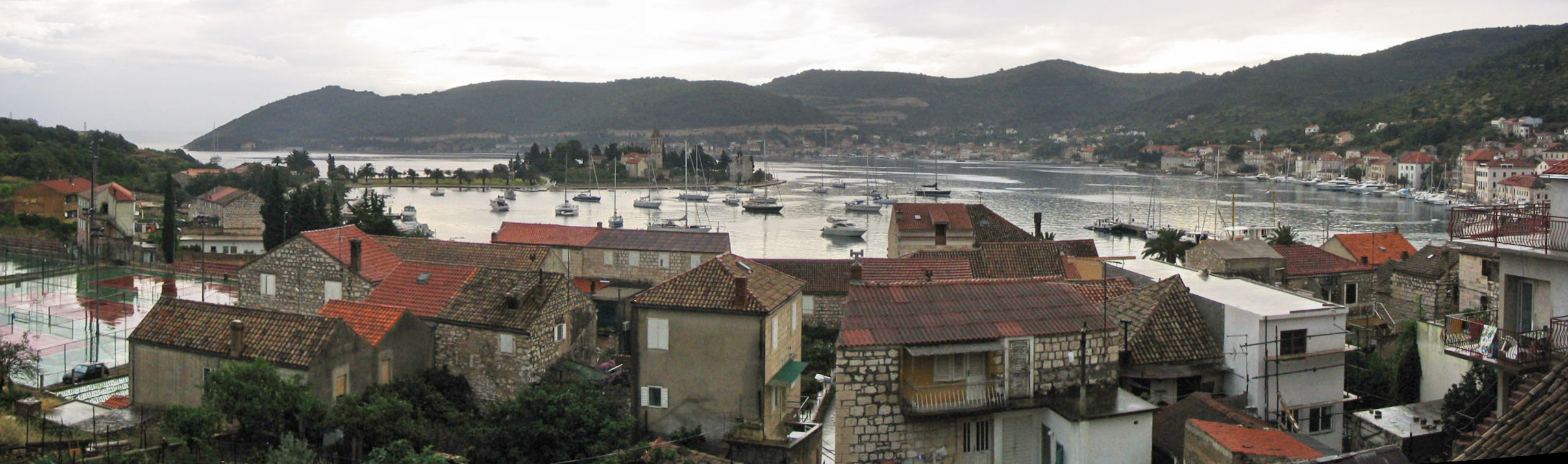 Vis, island of Vis, Croatia